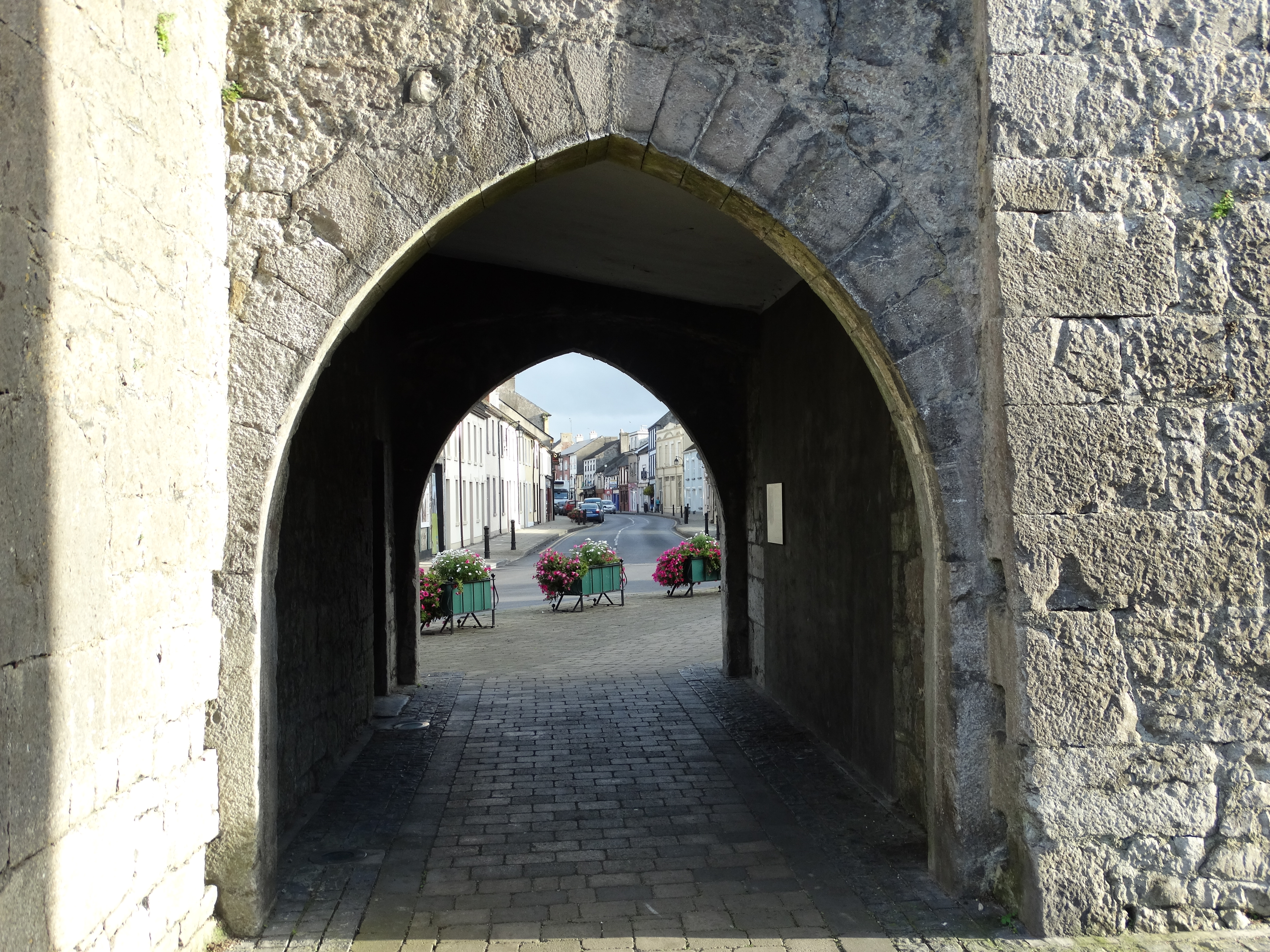 King Johns Castle Kilmallock